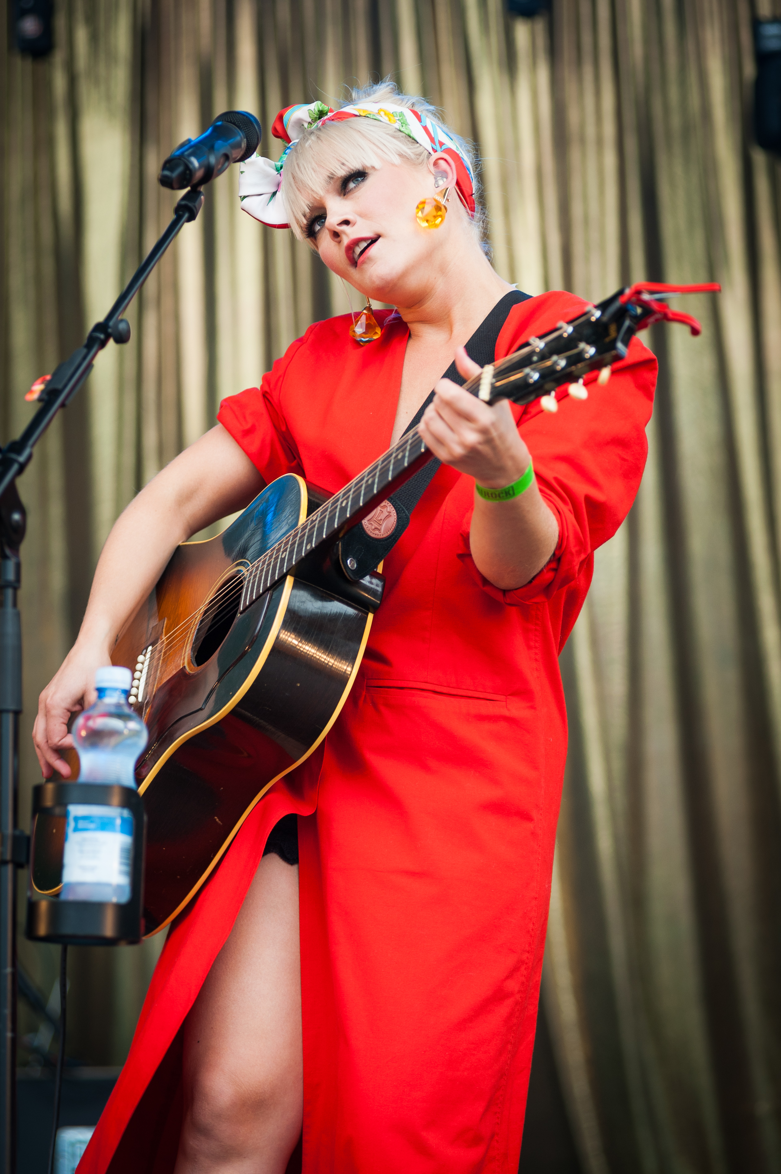 Finnish pop singer Anna Puu performing at the Ilosaarirock festival in Joensuu, Finland.